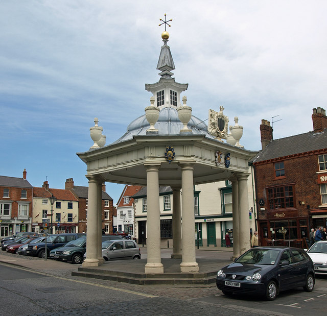 Beverley Market Cross, Beverley, East Riding of Yorkshire, England.Erected in 1714.